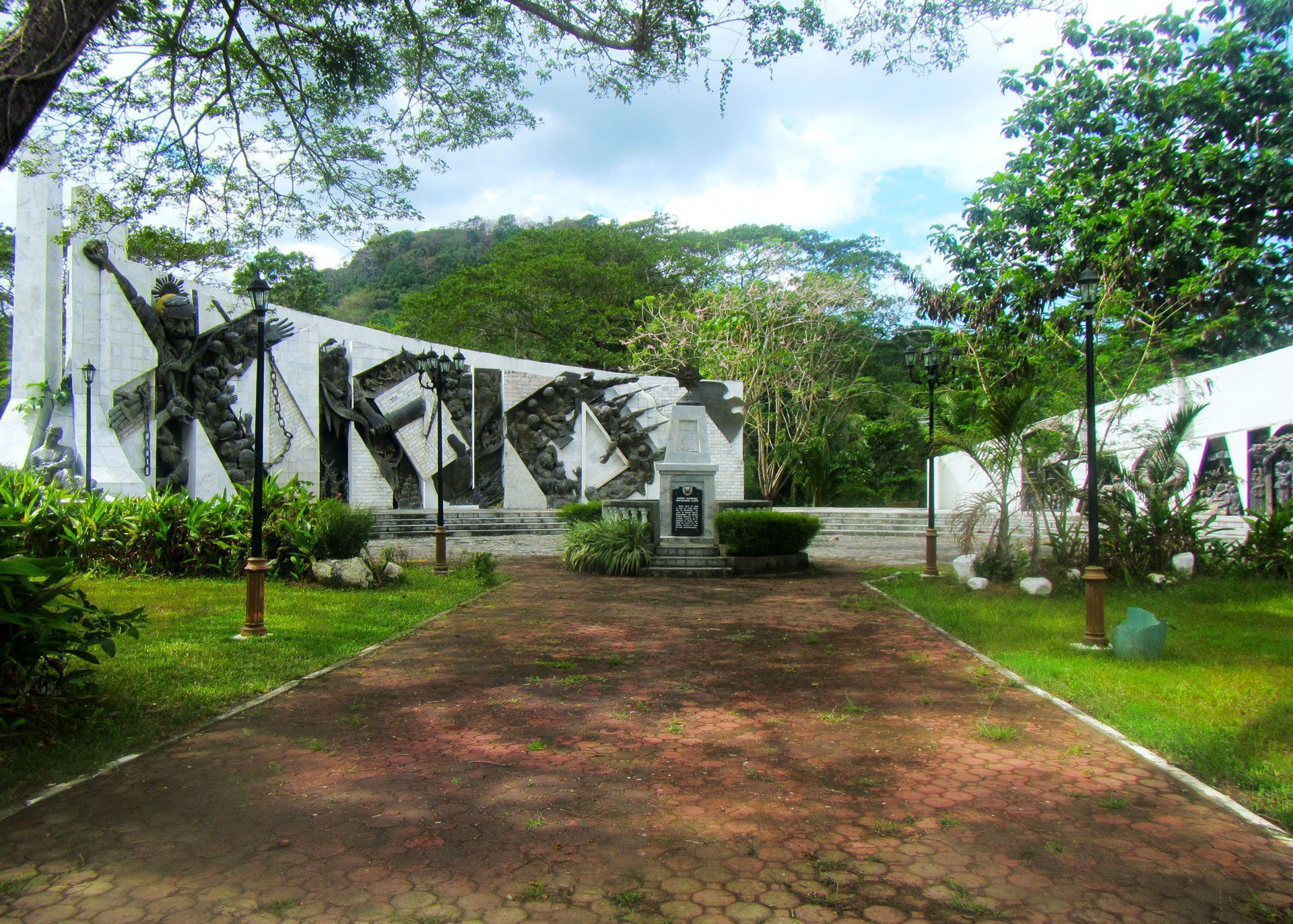 The Bonifacio shrine at the foot of Mount Nagpatong and Mount Buntis in Maragondon, Cavite where he was believed to be martyred; where his execution took place upon orders of Emilio Aguinaldo's administration last May 10, 1897. Photo by Schadow1 Expeditions